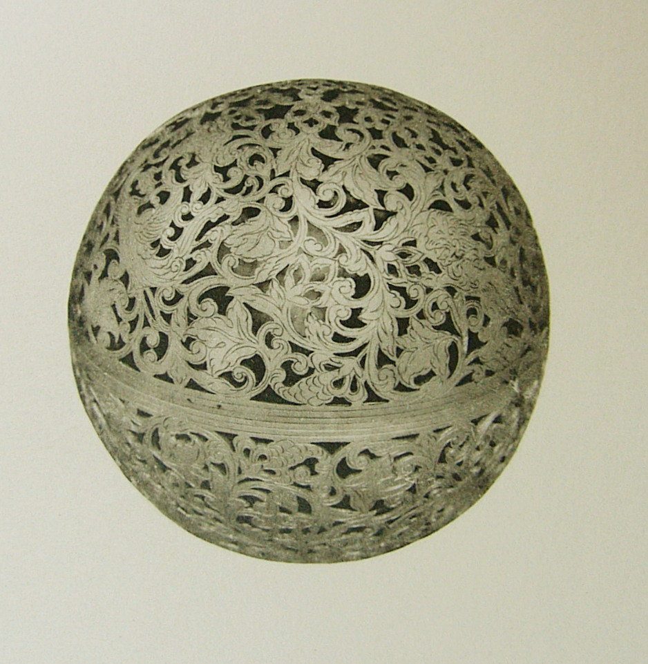 Silver incense burner 18cm dia, 8th century, lower part was lost in unknown period and reconstructed in Meiji period(late 19th century), Shosoin Collection, Nara, Japan